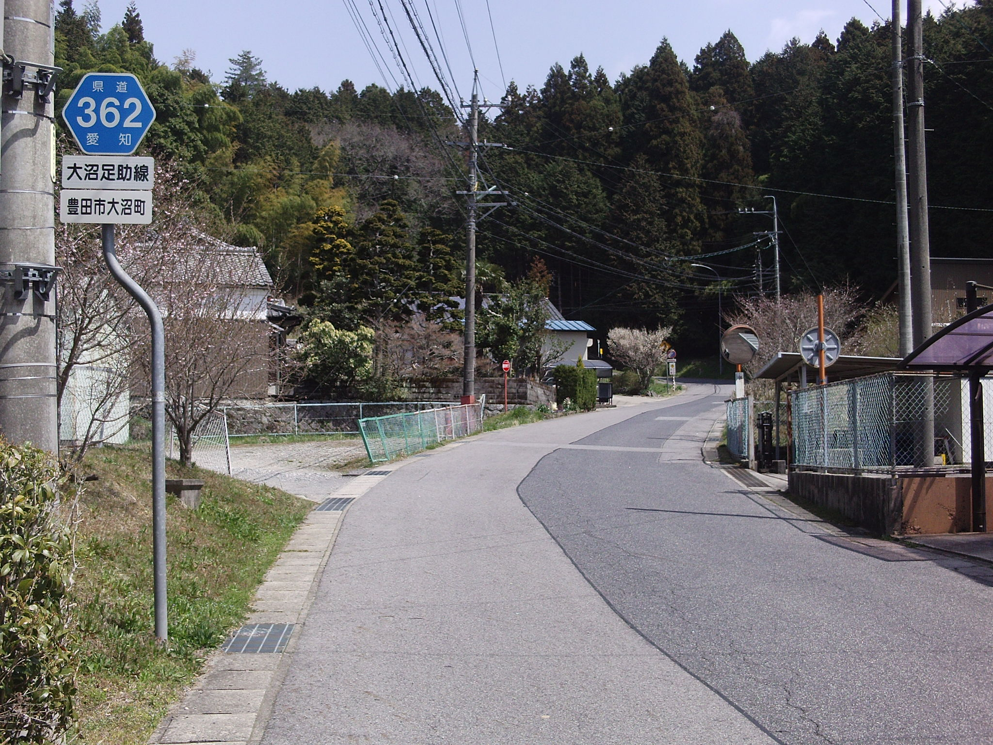 Aichi prefectural road No.362 in Onumacho, Toyota, Aichi.